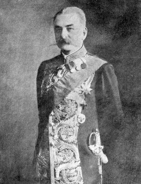 Image of Prince Nikolai Dimitrievitch Golitsyn (1850 - 1925), Russian politician, last Imperial Prime Minister in 1917